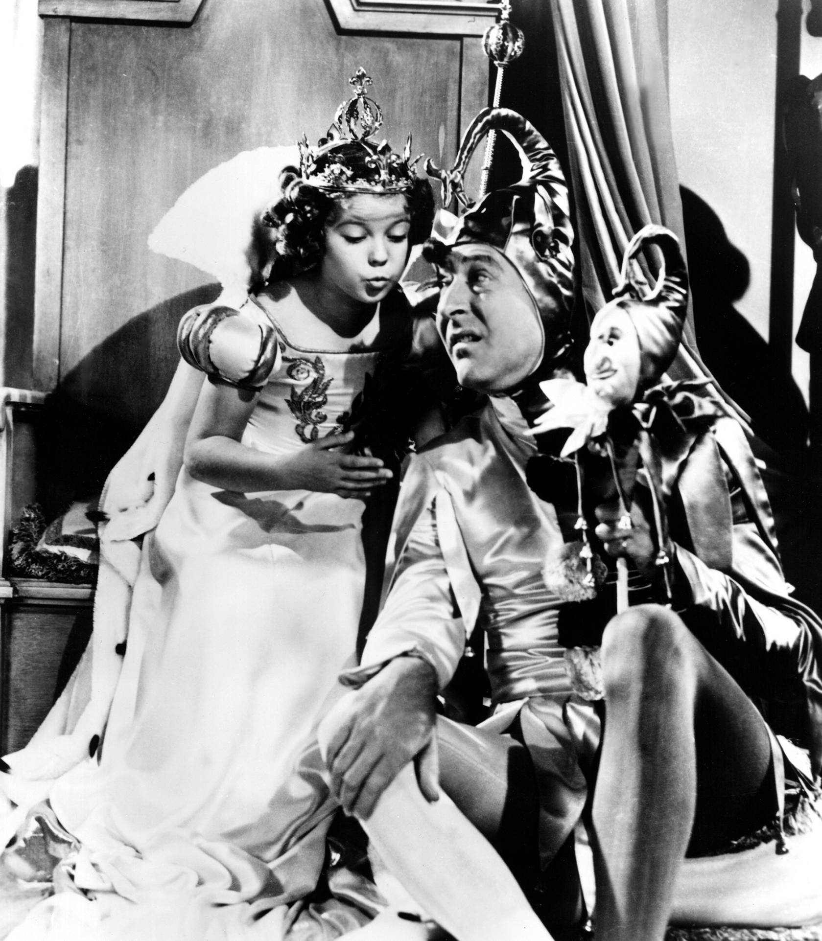 Shirley Temple & Arthur Treacher in The Little Princess (1939)